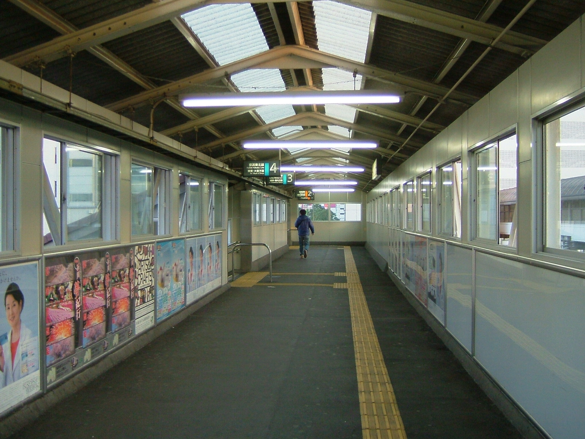 Footbridge in Kawasaki Station